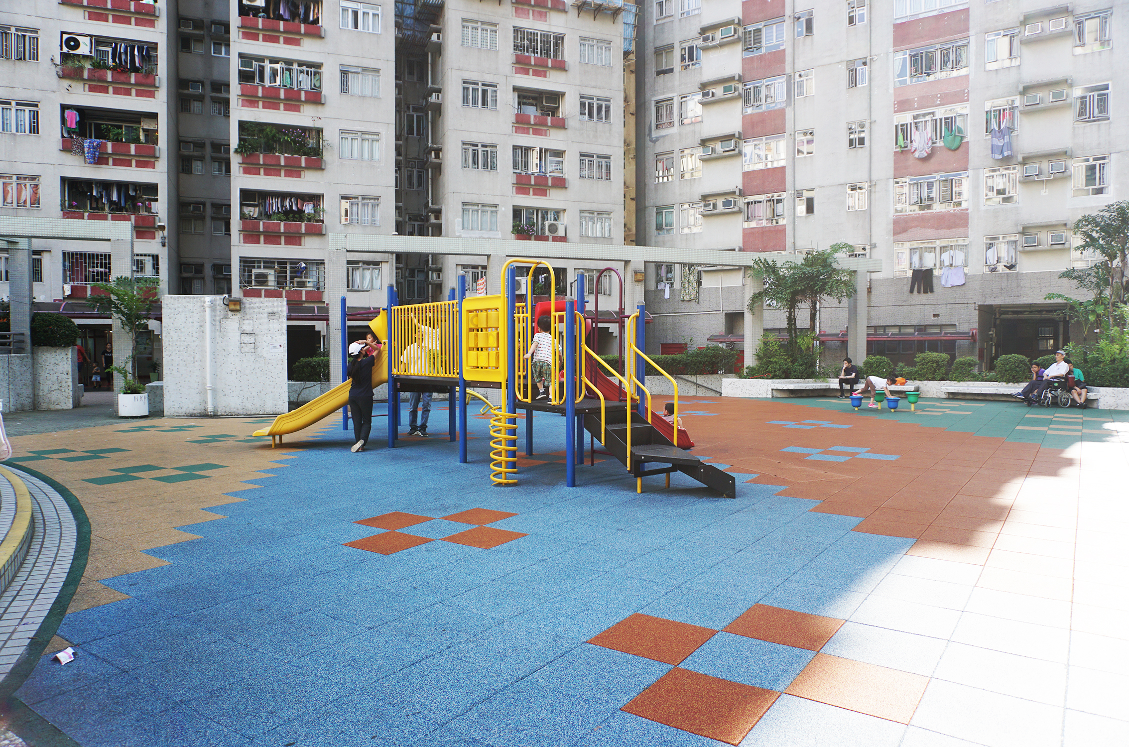 Ka Wai Chuen in Hung Hom, Hong Kong.